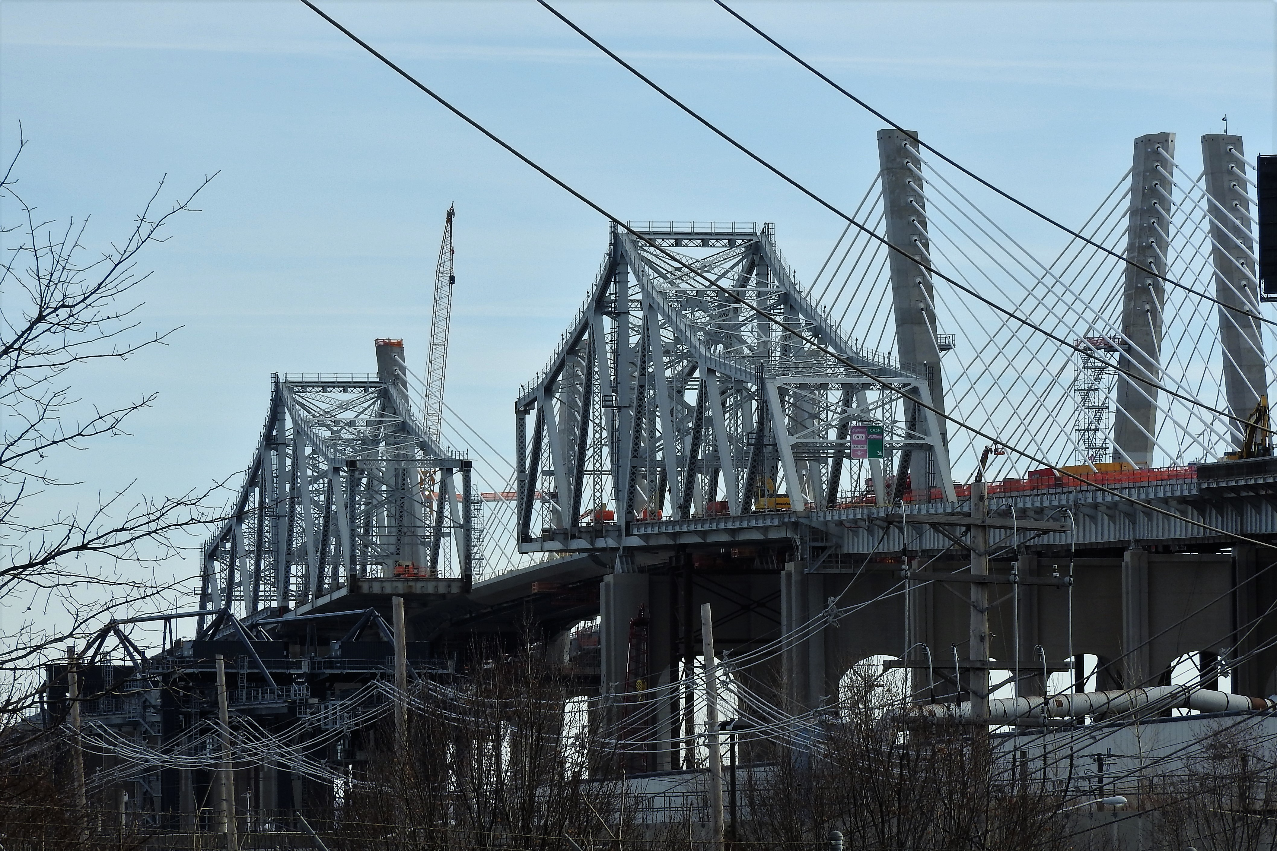 Looking east on a mostly sunny midday.